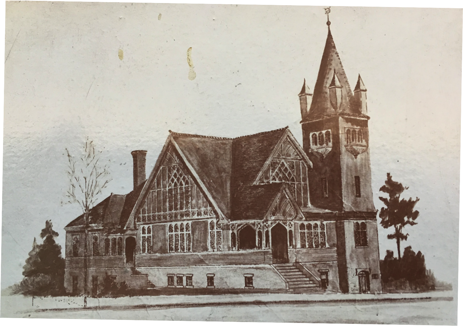 First Universalist church built in Atlanta, Georgia in 1900. Located at 16 East Harris Street. Sold April 1920.